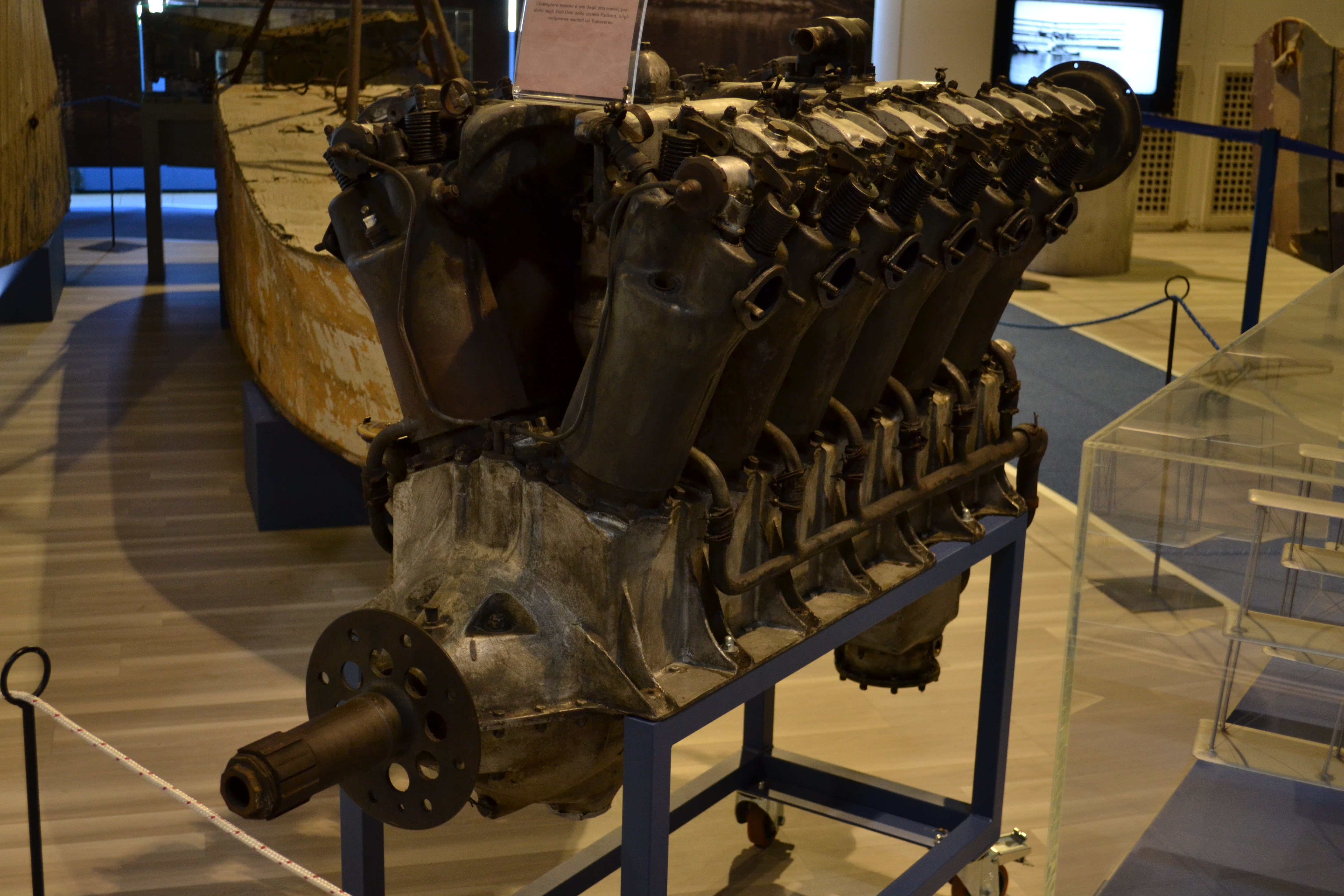 One of the 8 Liberty L-12 400 hp engines that powered the Caproni Ca.60 Transaereo flying boat. Preserved in the Caproni Museum in Trento.